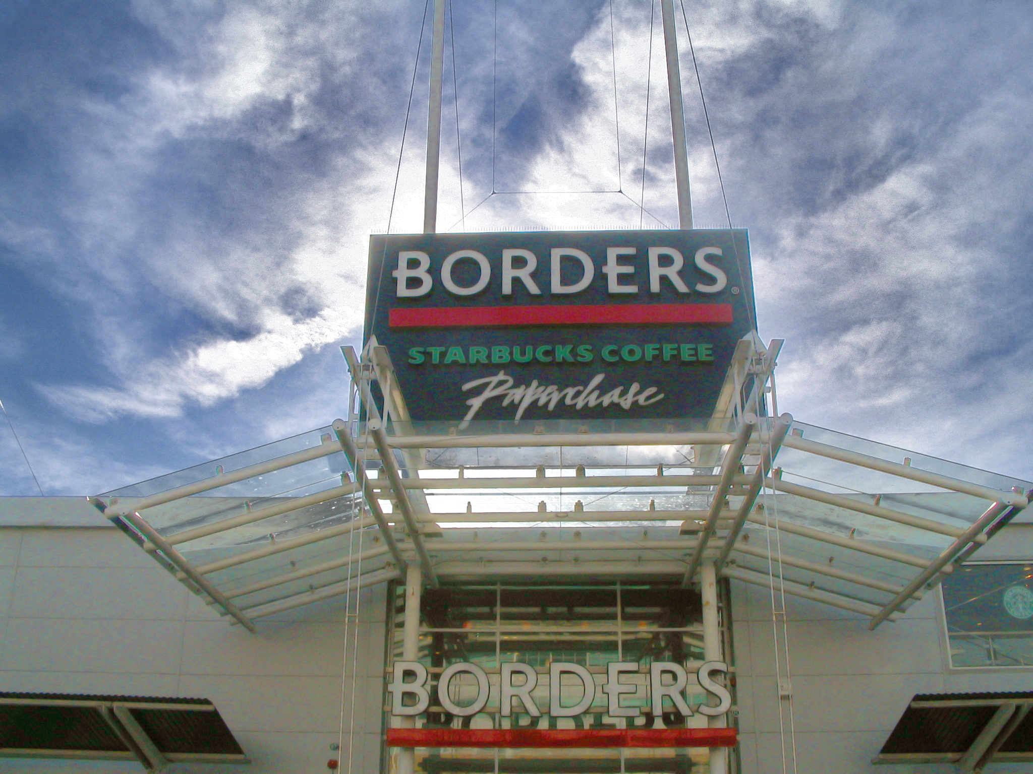 Borders in West Quay Retail Park, Southampton